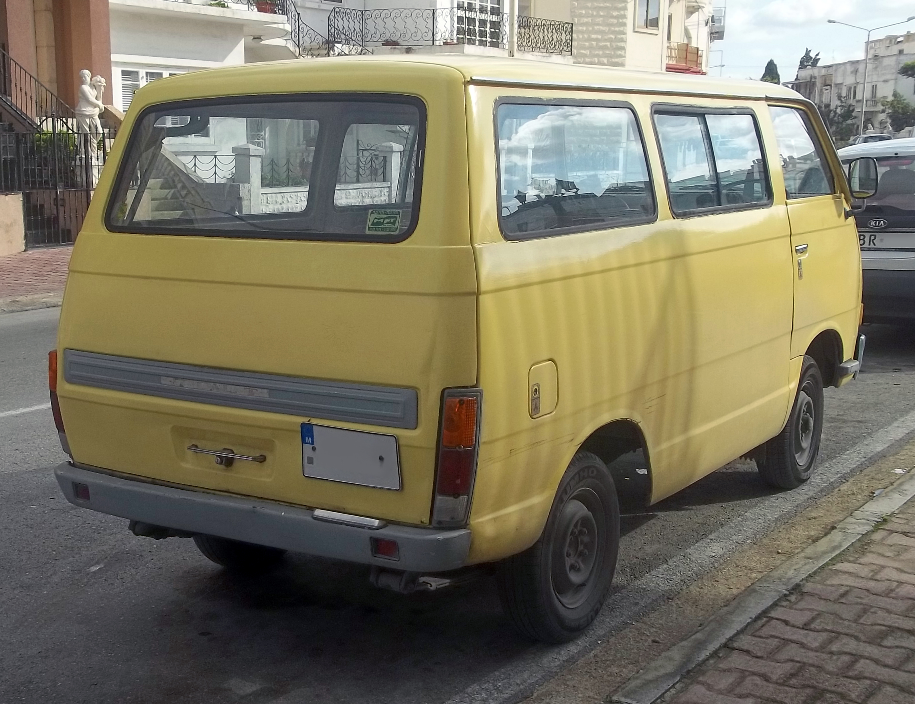 Mitsubishi Colt T120 (export version of the T120 series Delica) light van, seen in Malta in 2013.